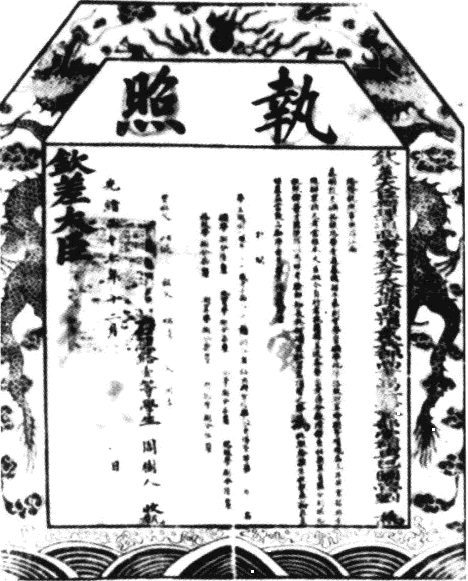 Lu Xun's Graduation Certificate